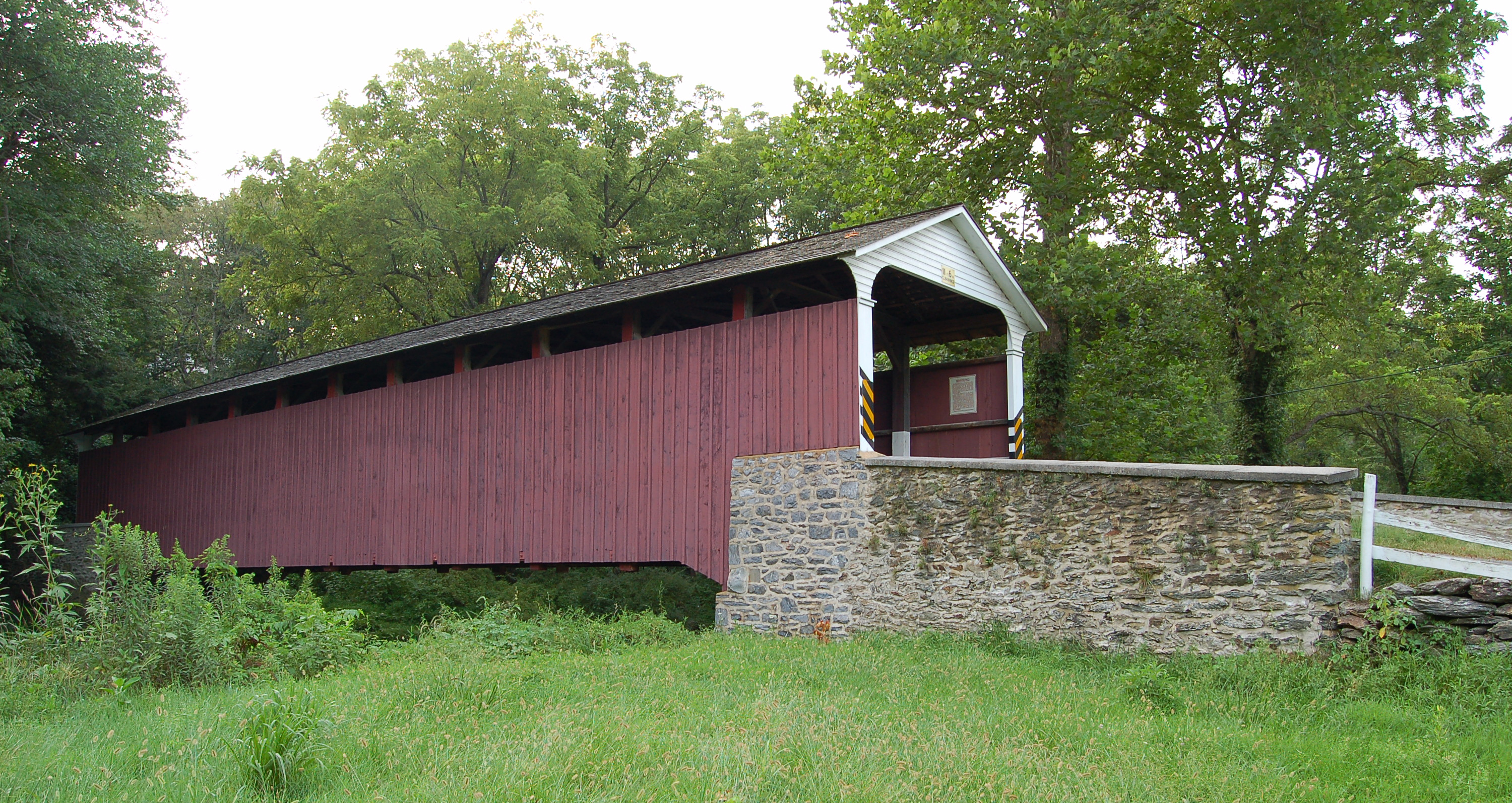 A photograph of the side of the Mercer's Mill Covered Bridge located on the county line between Lancaster County, Pennsylvania and Chester County, Pennsylvania.